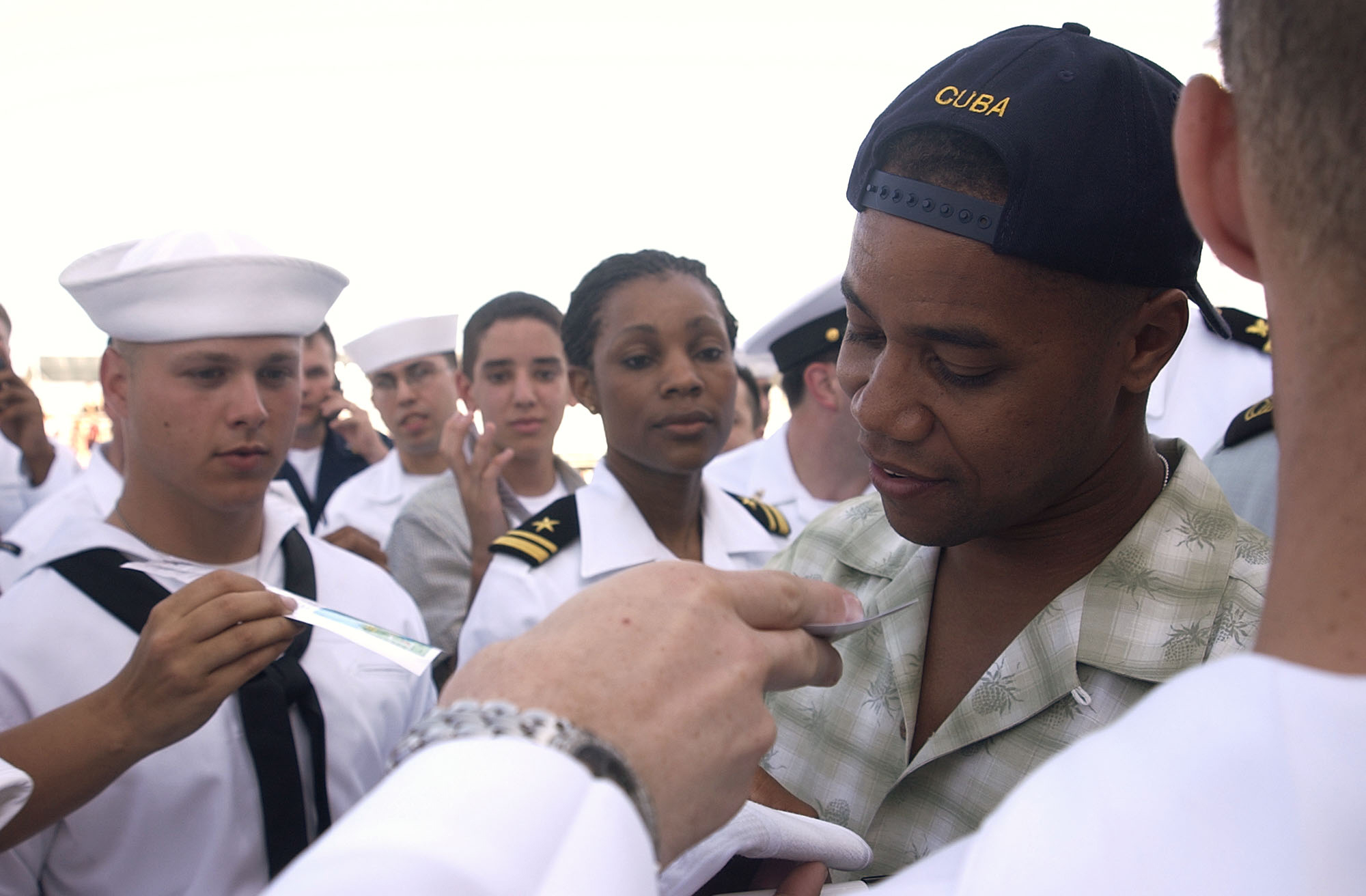 Cuba Gooding Jr. signs autographs; 020502-N-9610B-519 At sea aboard USS Harry S. Truman (CVN 75) May 2, 2002 -- Cuba Gooding Jr. signs autographs during the taping of the television special, “Rockin’ for the USA – A National Salute to the U.S. Military,” scheduled to air May 25th at 9 p.m. (EDT) on the CBS television network. Truman and six other U.S. Navy ships are visiting Ft. Lauderdale for “Fleet Week 2002.” U.S. Navy photo by Photographer's Mate 3rd Class Justin Bane.